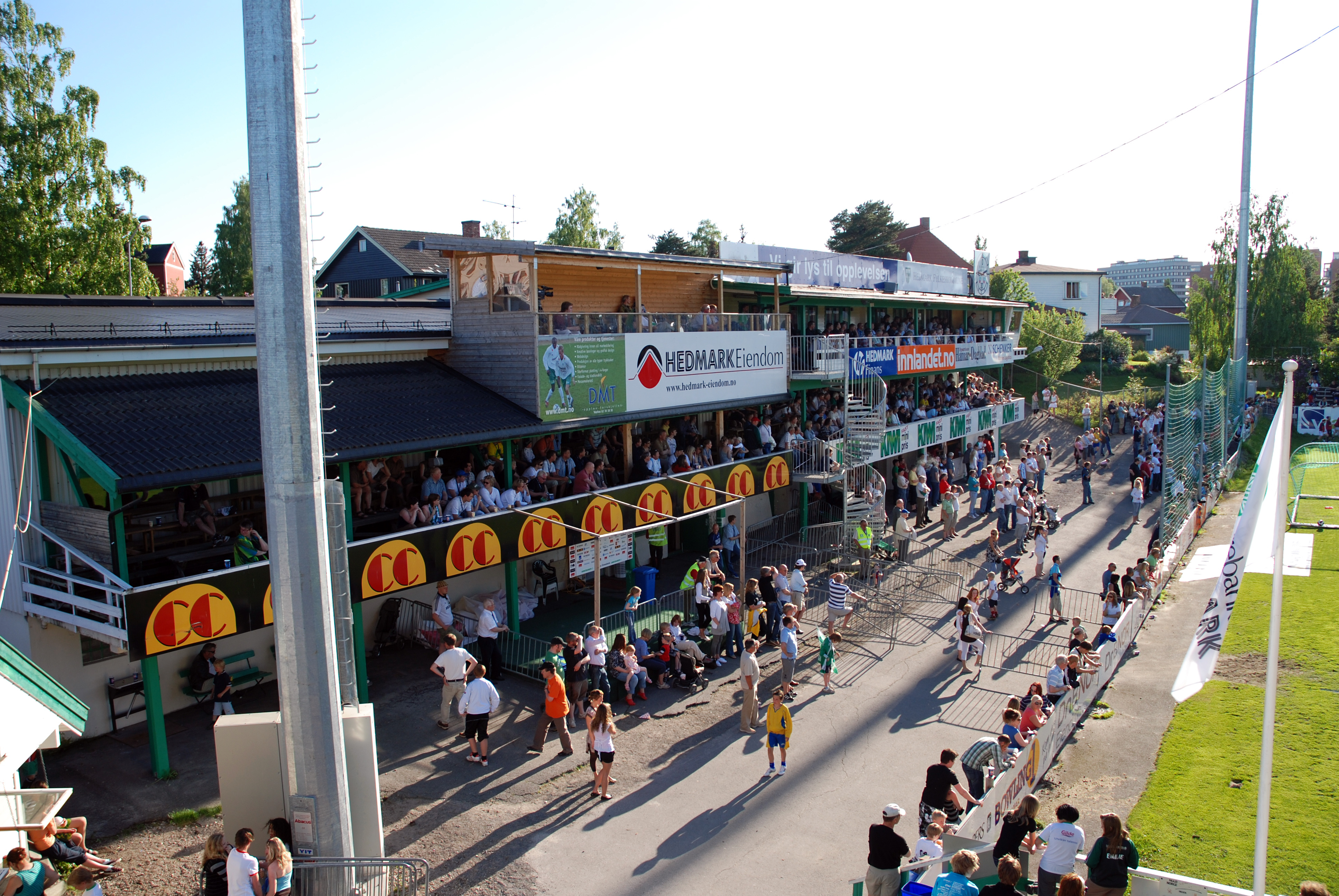 Briskeby gressbane, in Hamar, Hedmark, Norway.